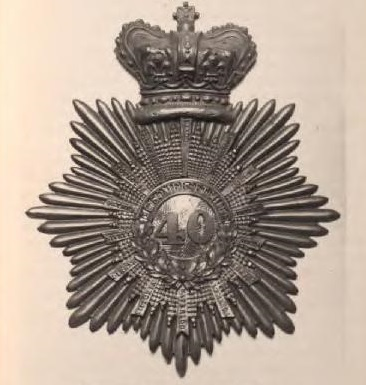 40th Regiment of Foot Cap Badge